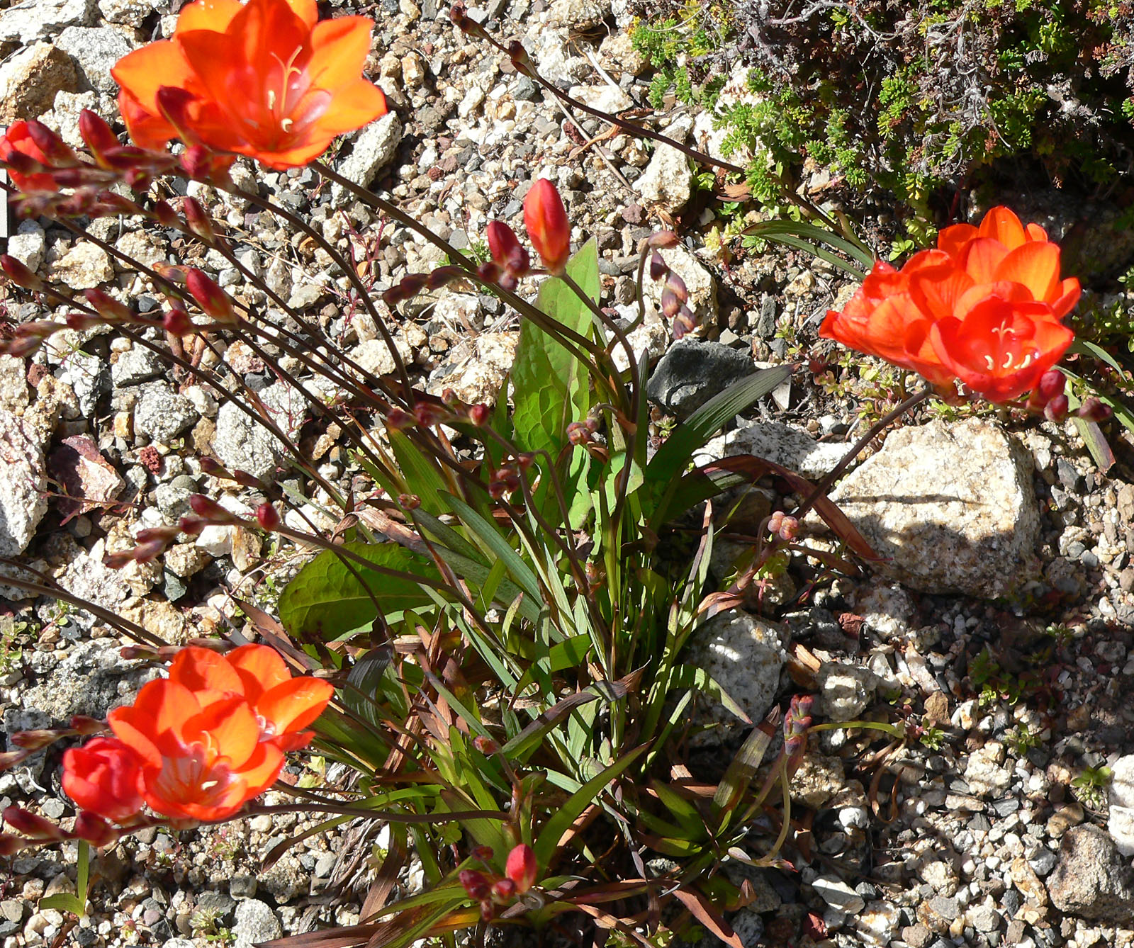 Tritonia crocata (labelled T. hyalina) at the University of California Botanical Garden, Berkeley, California